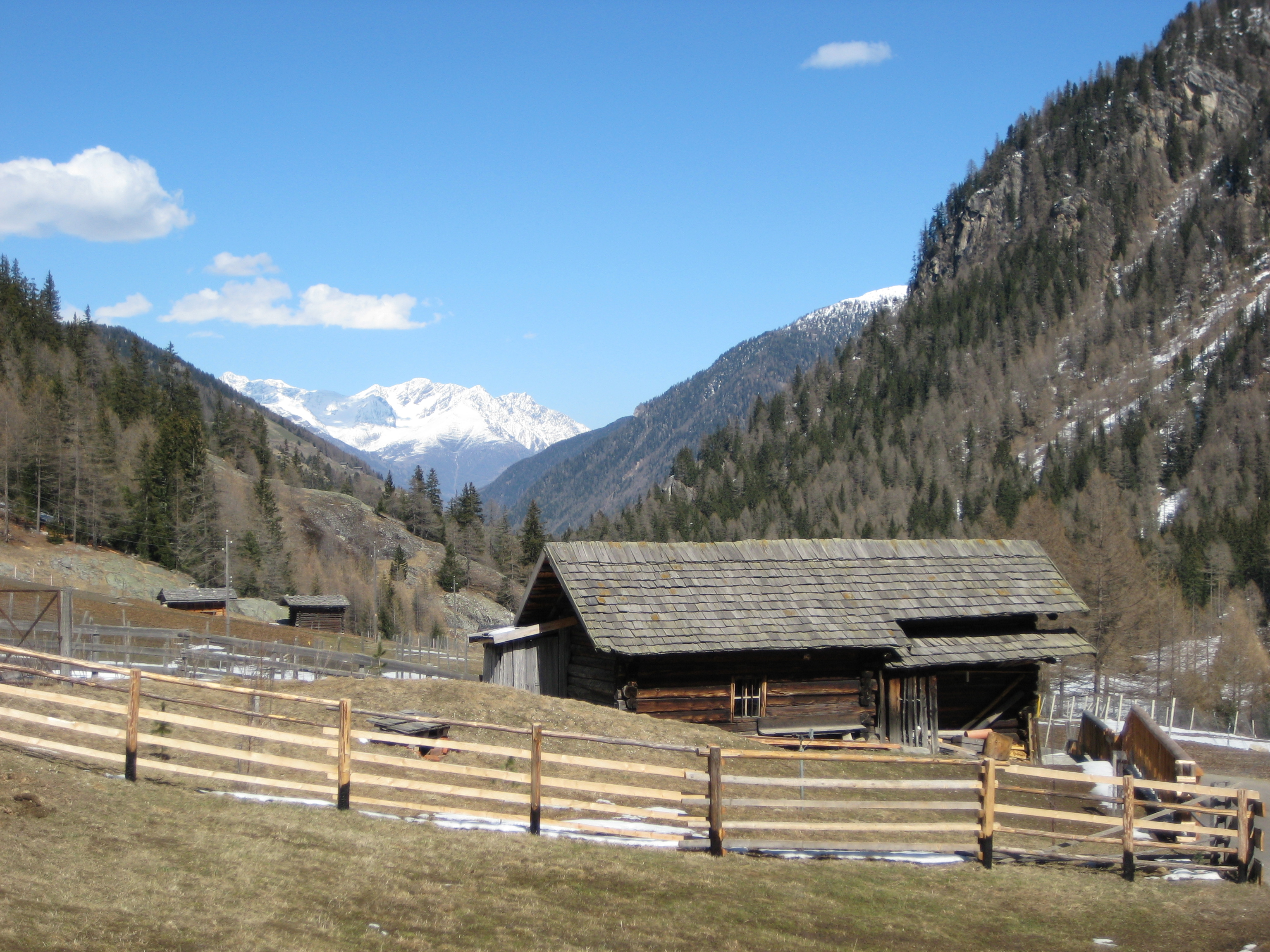 Martellvalley, view direction northeast towards the Ötztal Alps